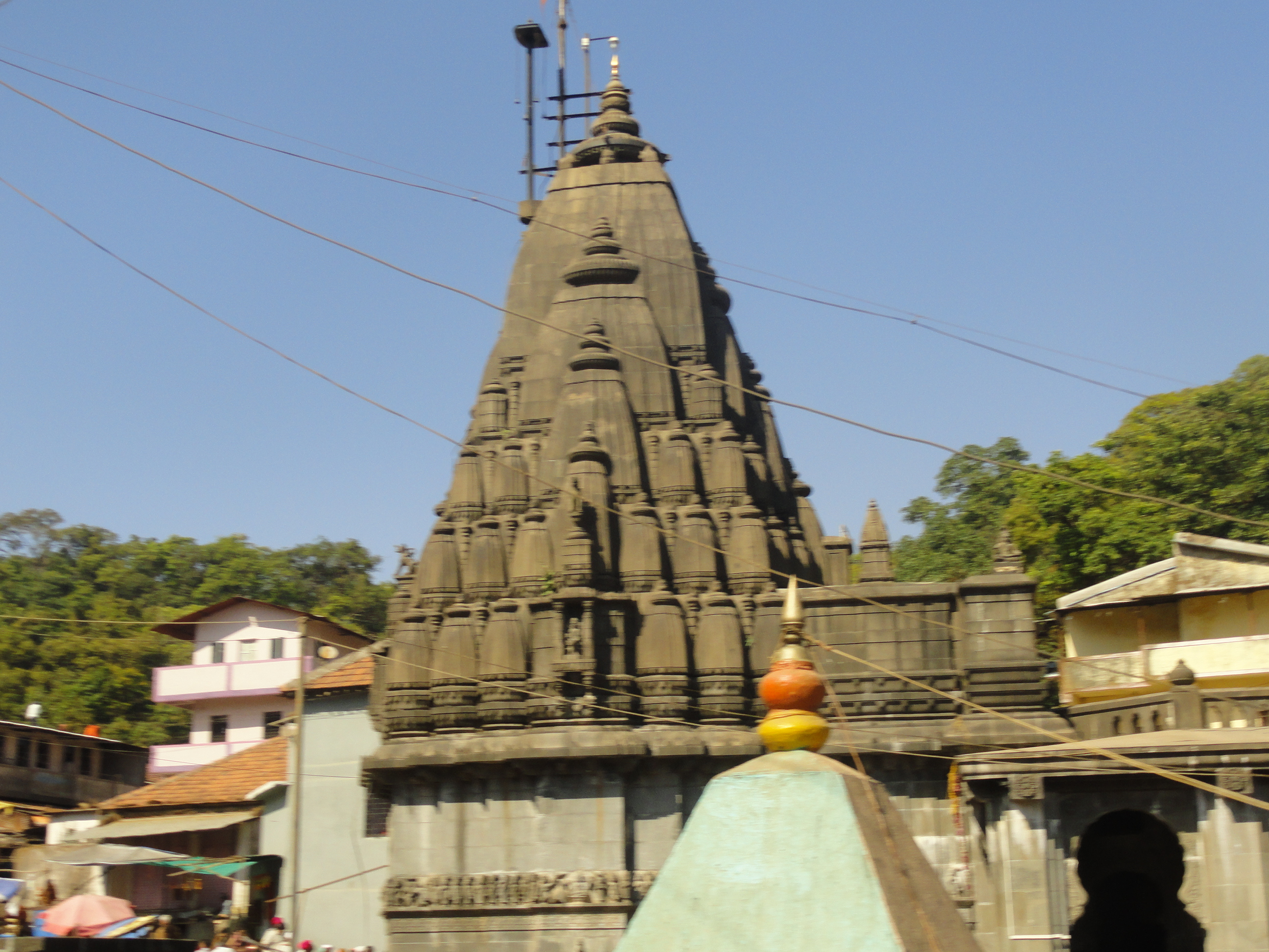 One of the twelve Jyotirlingas of India ଭାରତର ଦ୍ବାଦଶ ଜ୍ୟୋତିର୍ଲିଙ୍ଗ ଭିତରୁ ଗୋଟିଏ